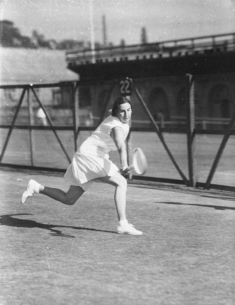 Dorothy Round practising on outside court no.22, White City